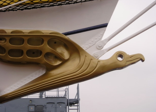 Figurehead (an albatross) of the school ship Gorch Fock (1958) of the German Navy, dry-dock in Bremerhaven, 2006 Source: Own picture Photographer: Hermann Dirkes Date: 23 April 2006 Current Figurehead. More pictures on gorchfock.de